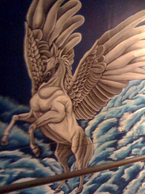 frightened Pegasus, painted just behind the stage at Pegasus, last night in pittsburgh.